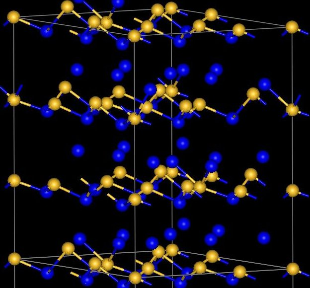 Structure of Tl2S viewed normal to the high-symmetry trigonal axis. Yellow atoms correspond to sulfur